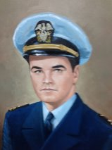 Photo of Navy Lt. Cmdr. Harvey Locke Carey of Louisiana